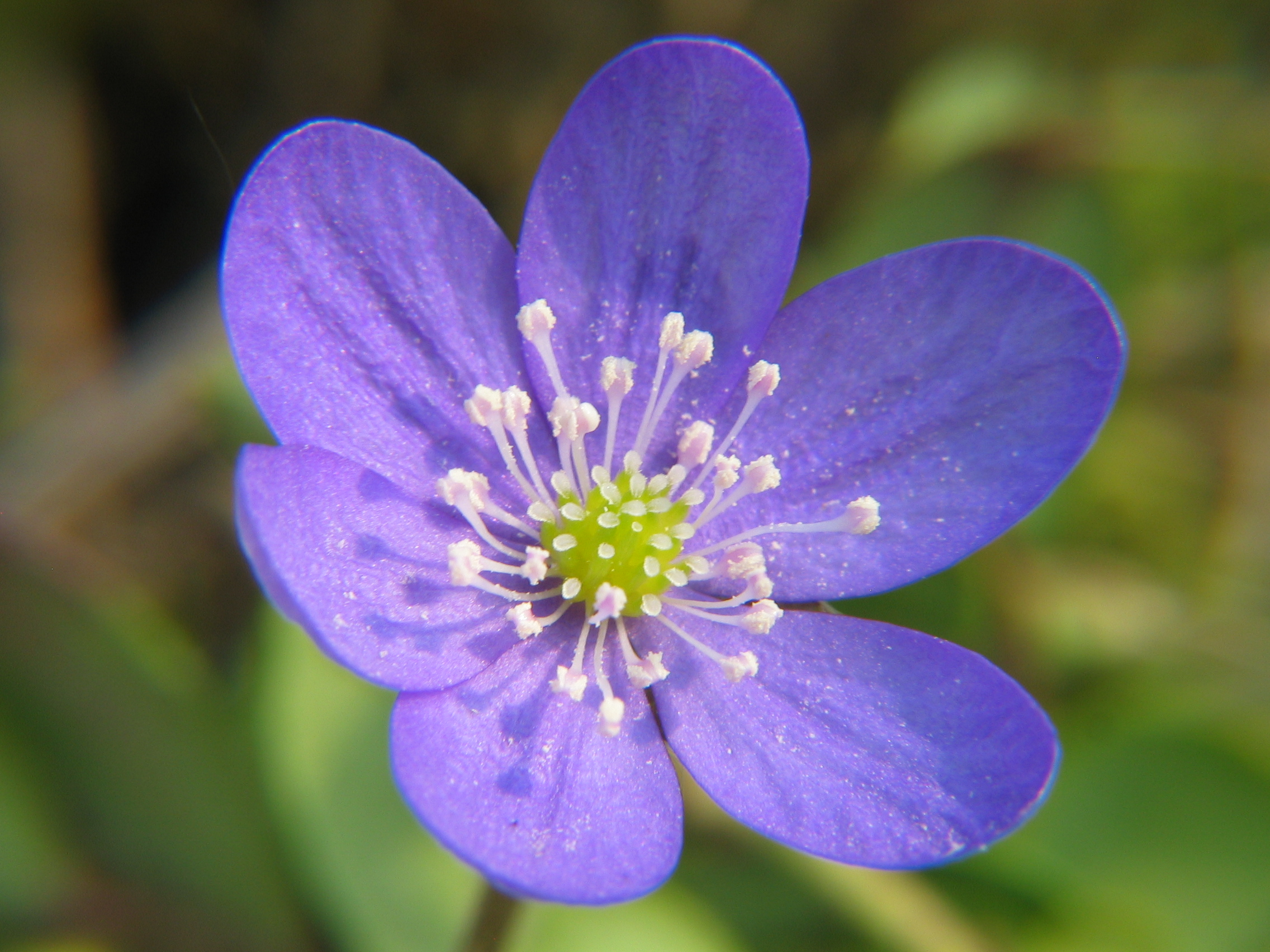 Hepatica nobilis, photo taken in Sweden